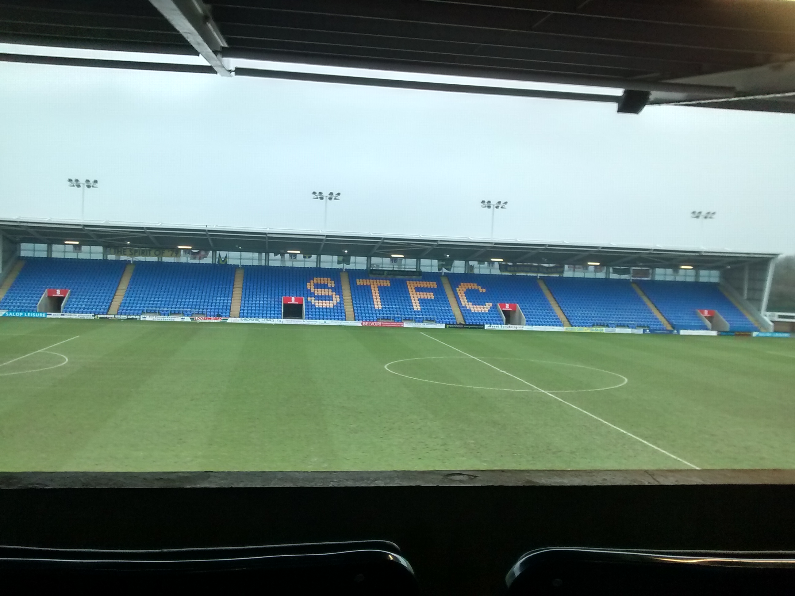 West Stand of New Meadow in 2015 February